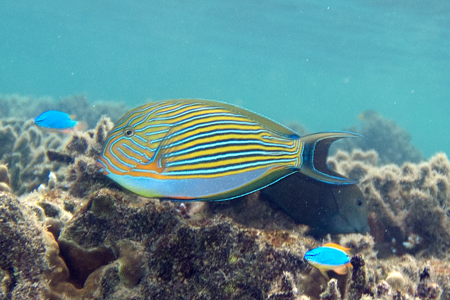 with south seas devil Chrysiptera taupou, and, behind the surgeonfish's tail, striped bristletooth Ctenochaetus striatus (lined bristletooth)